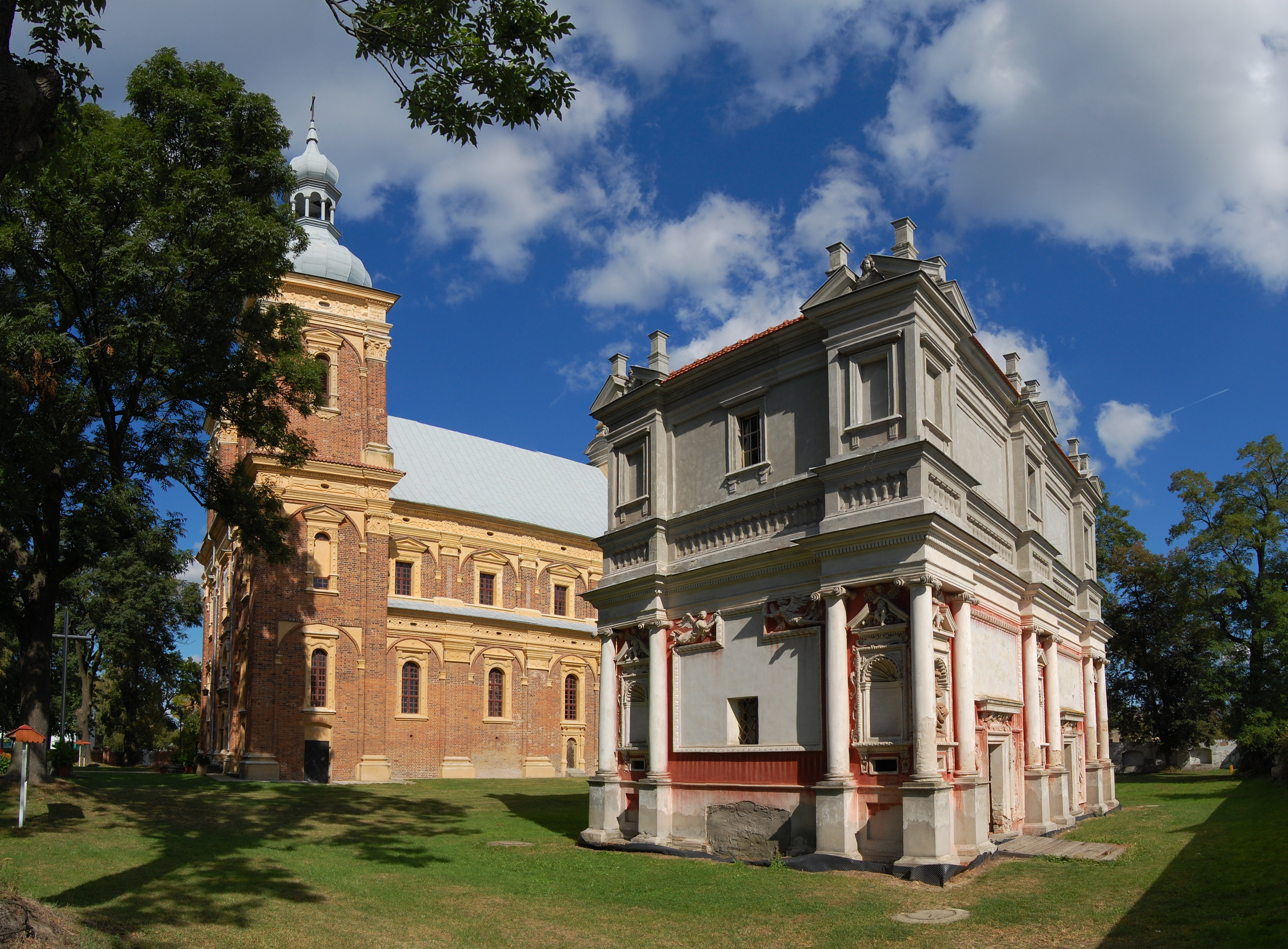 Loretan house and church, Gołąb, Puławy County, Lublin Voivodeship, Poland.